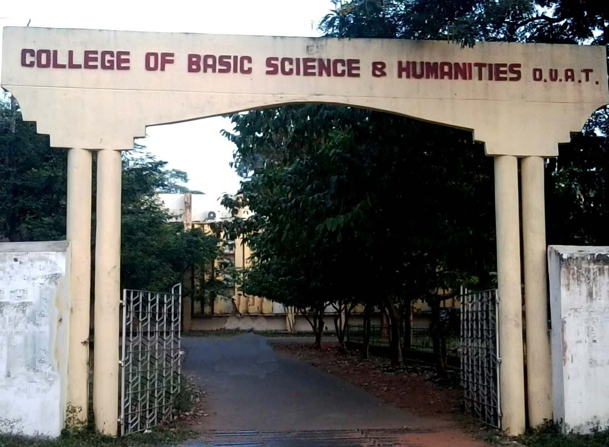 The old gate of college of basic science and humanities whichich is replaced by a newer one.